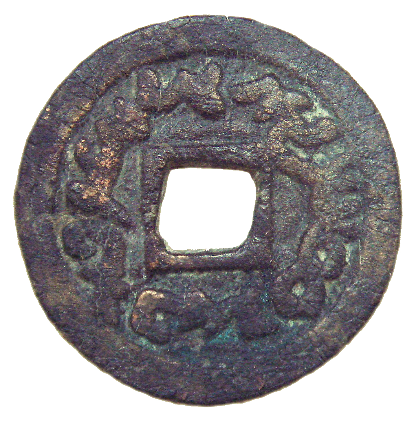 Chinese-inspired Sogdian coin, Kelpin 8th Century CE. These coins were minted in Semirech'e in what is now South Eastern Kazakhstan, South East of Lake Balkhash.